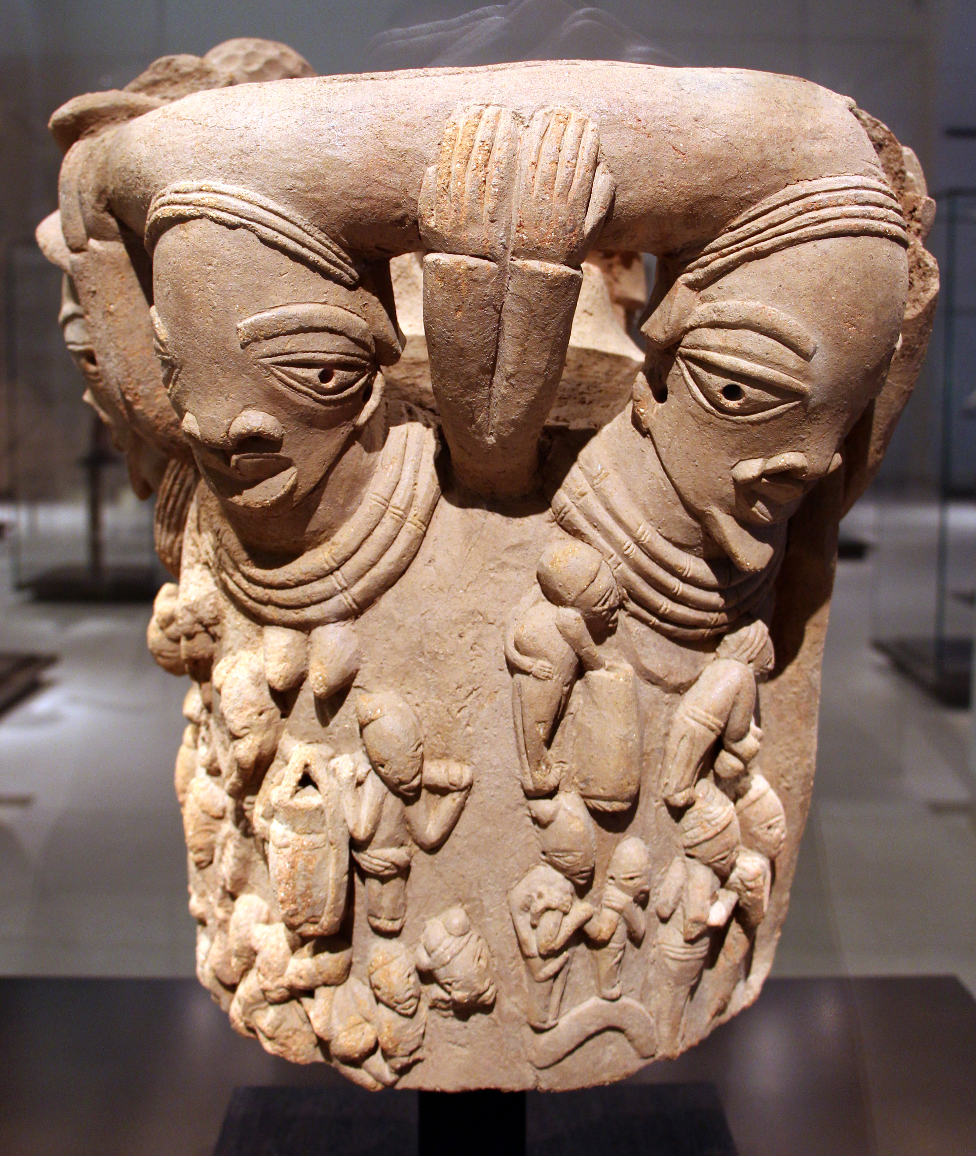 Arts of Africa in the Louvre - Room 2